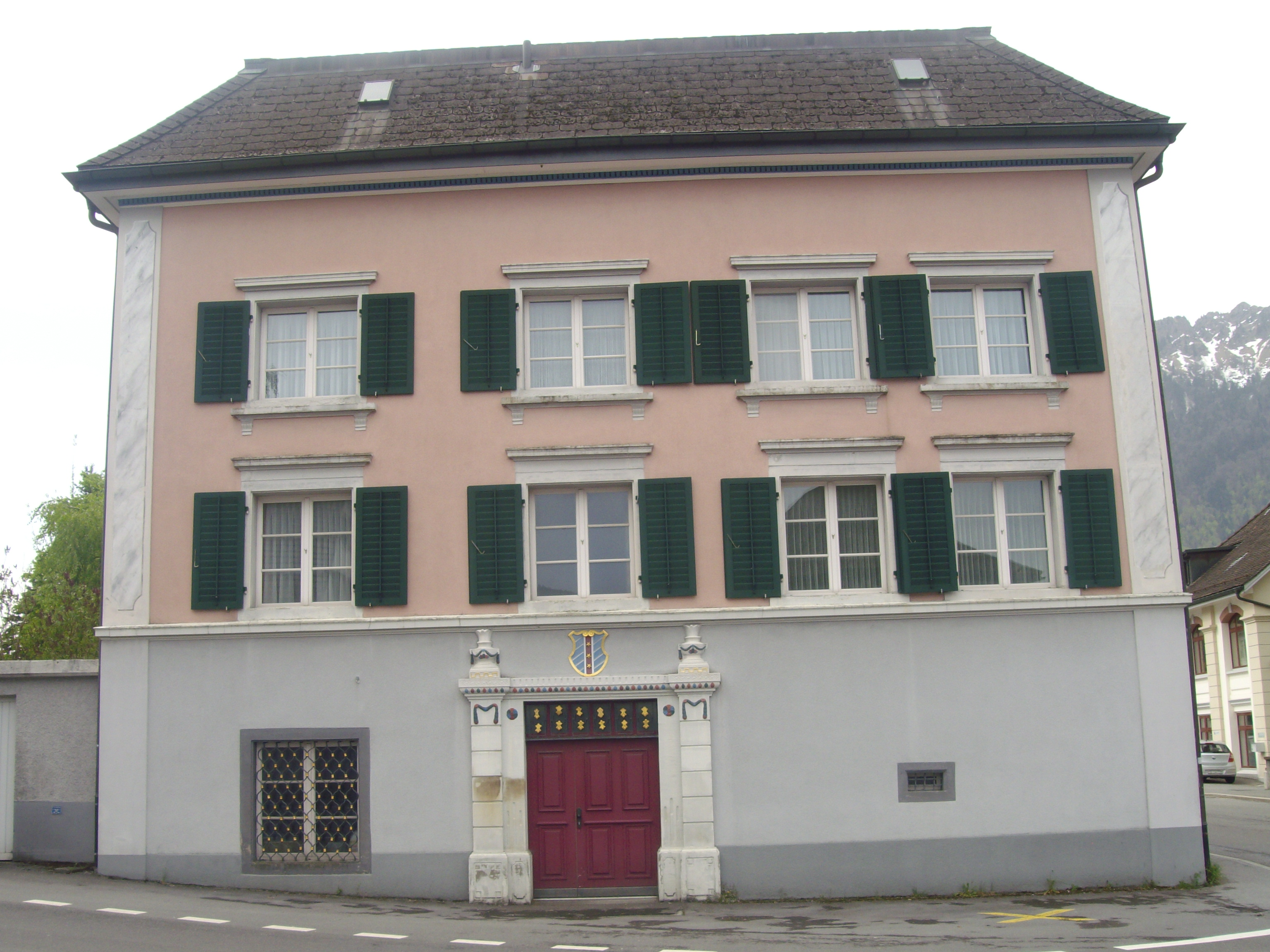 Altes Rathaus in Schänis